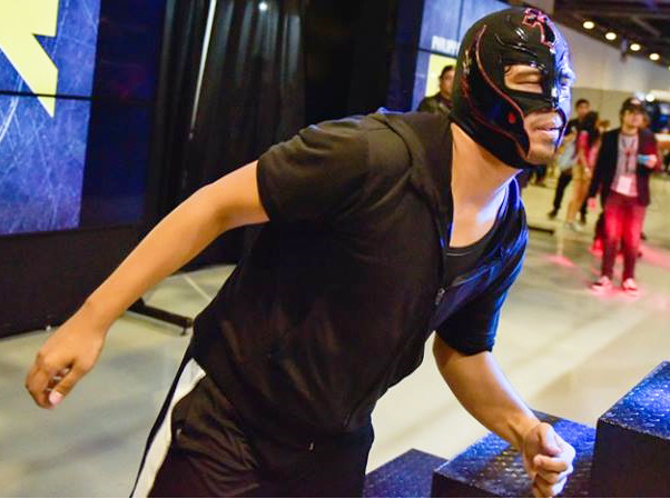 Trabajador Maximo entering the Ring